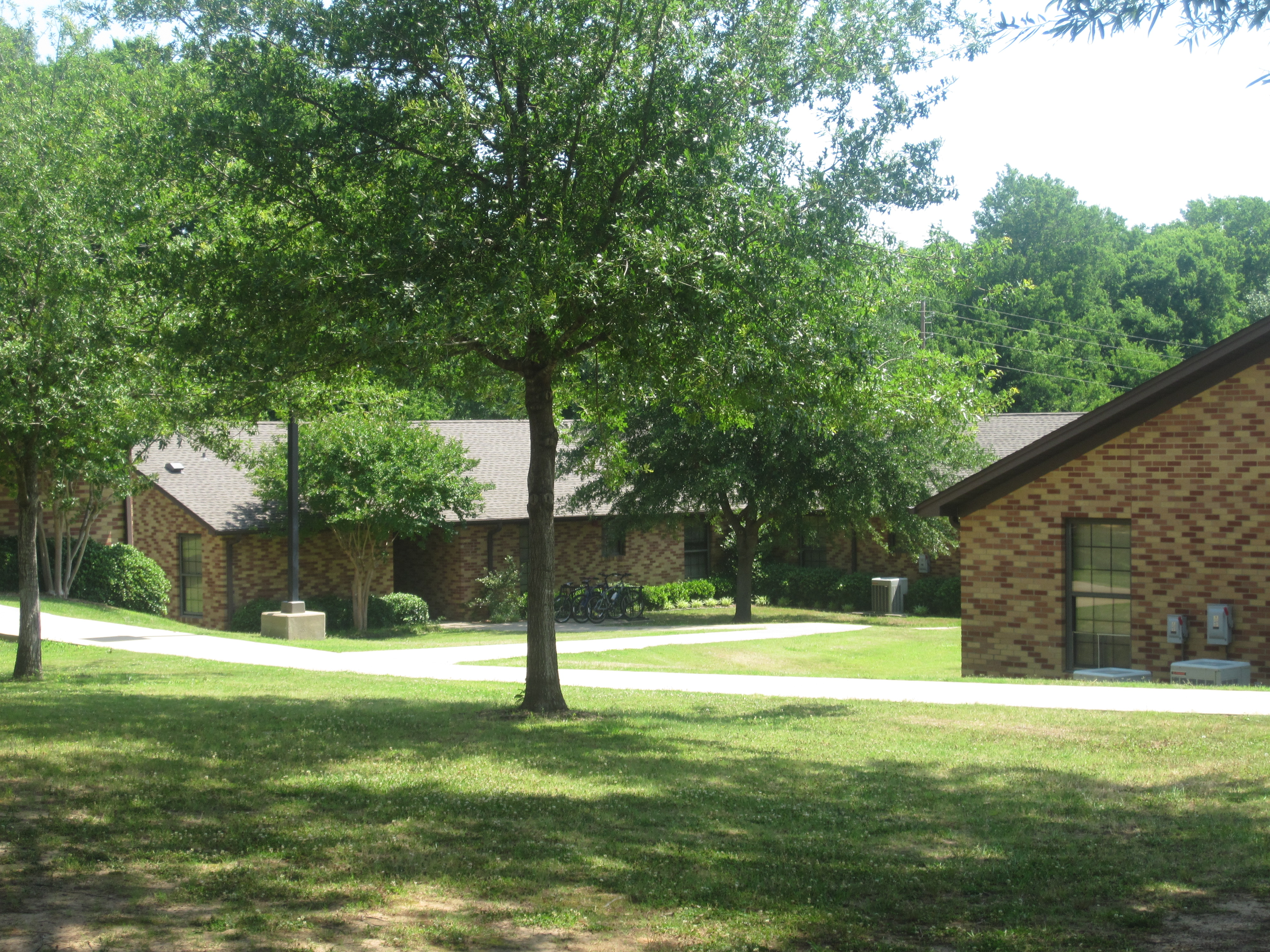 I took photo in Longview, TX, with Canon camera.